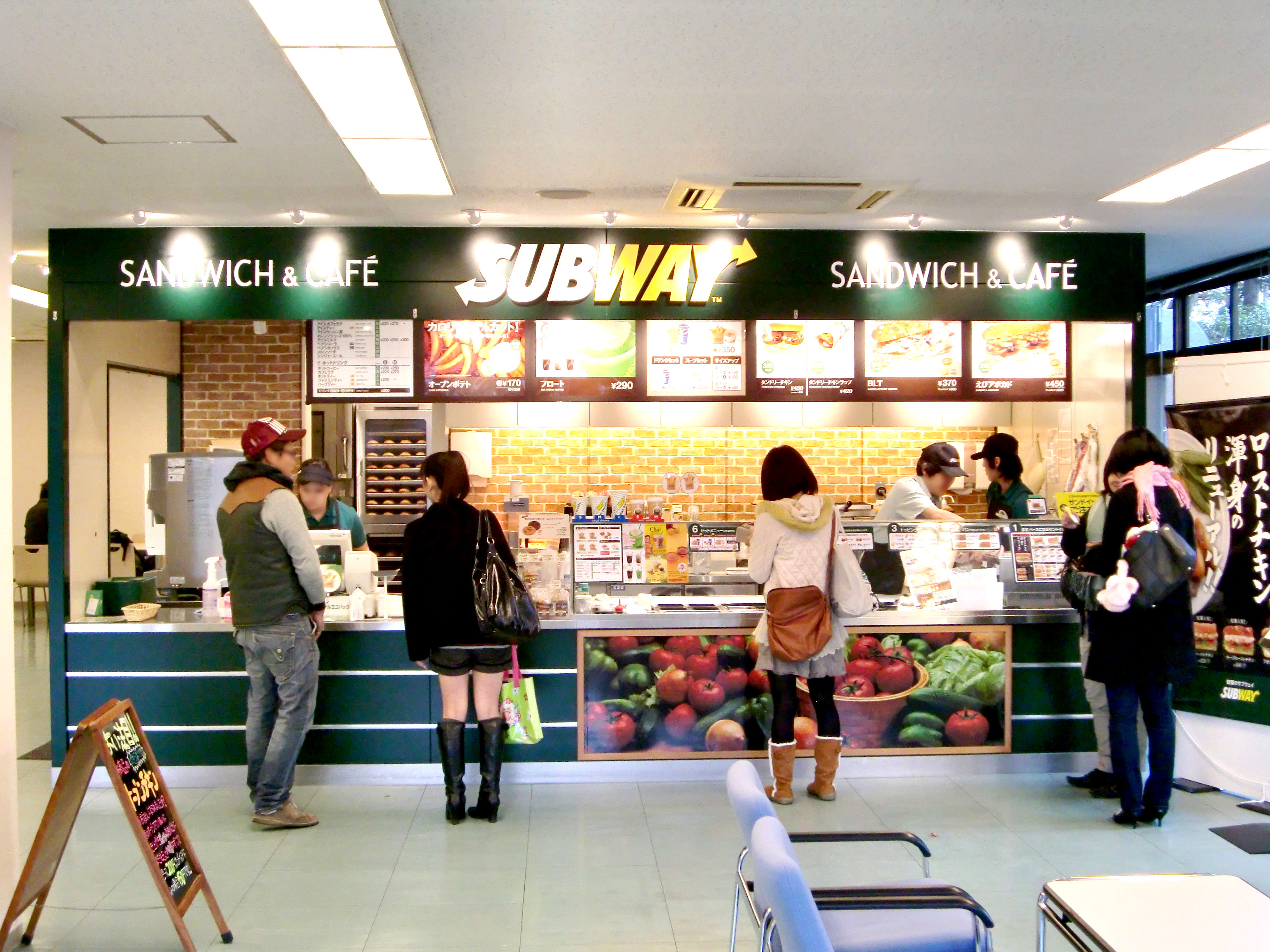 SUBWAY Ritsumeikan University Kinugasa,Tojiinkitamachi Kita-ku Kyoto-City JAPAN.